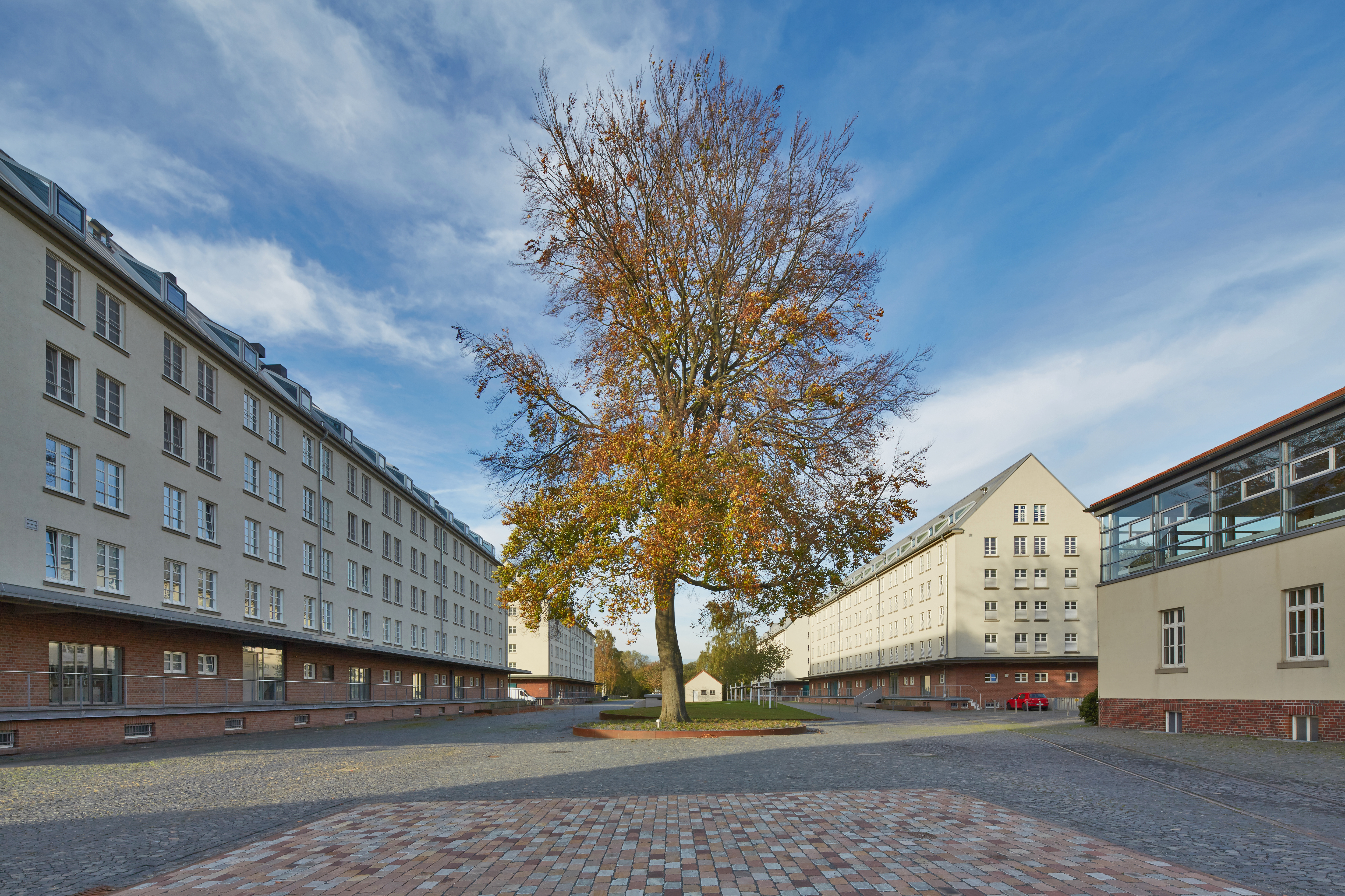 Speicherstadt Münster; Fotograf Gereon Holtschneider